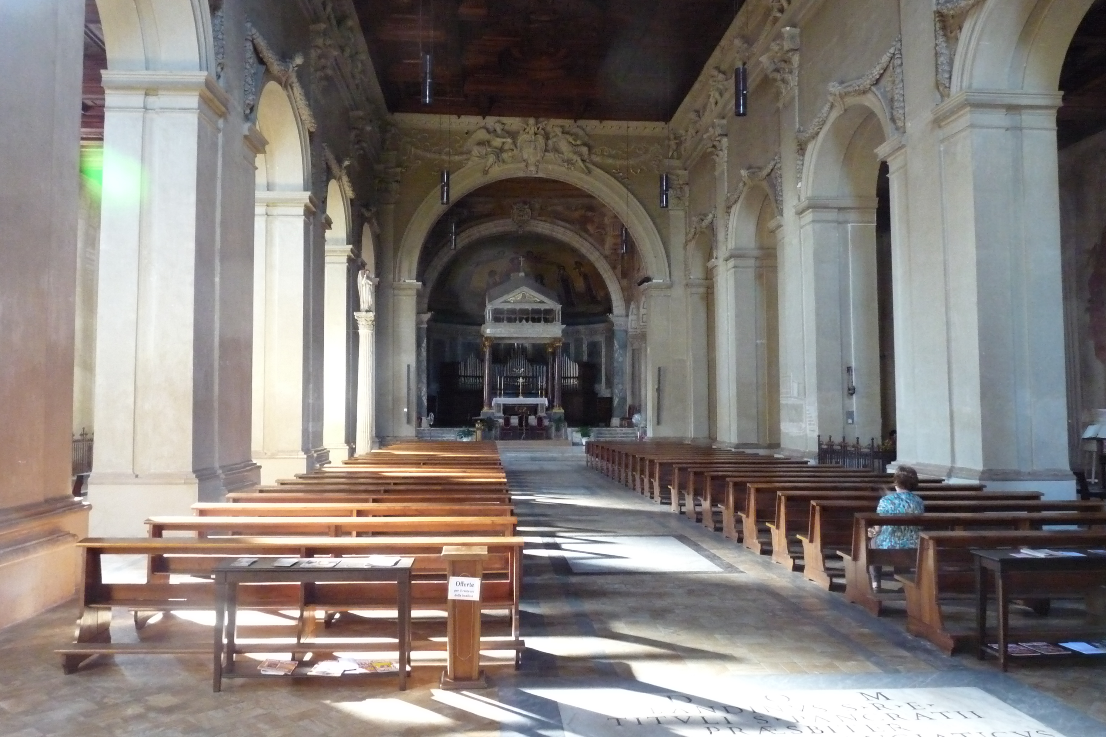 San Pancrazio in Gianiculo (Roma) - interior